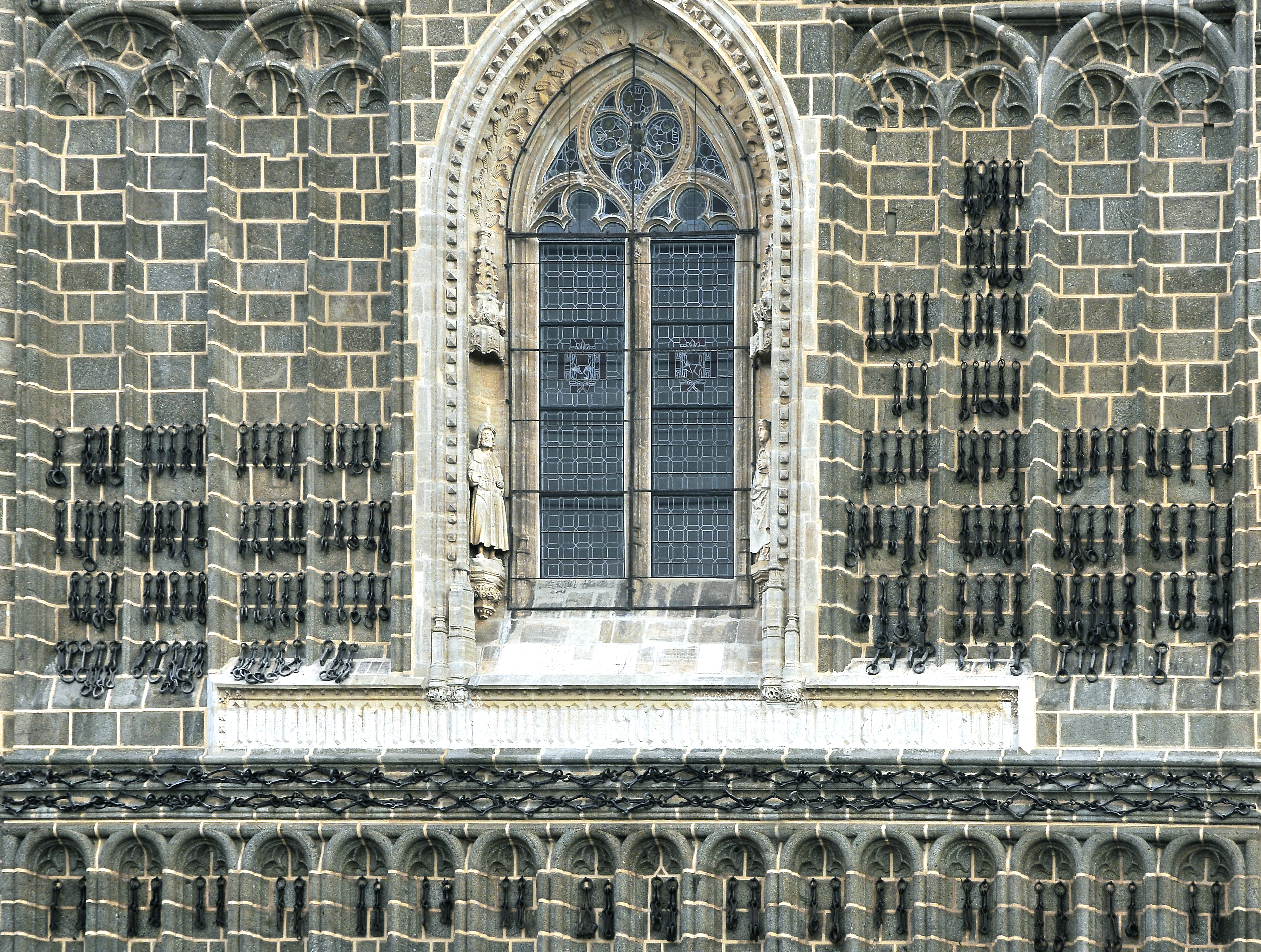 Detail of the church of the monastery of San Juan de los Reyes. Toledo, Toledo, Castile-La Mancha, Spain